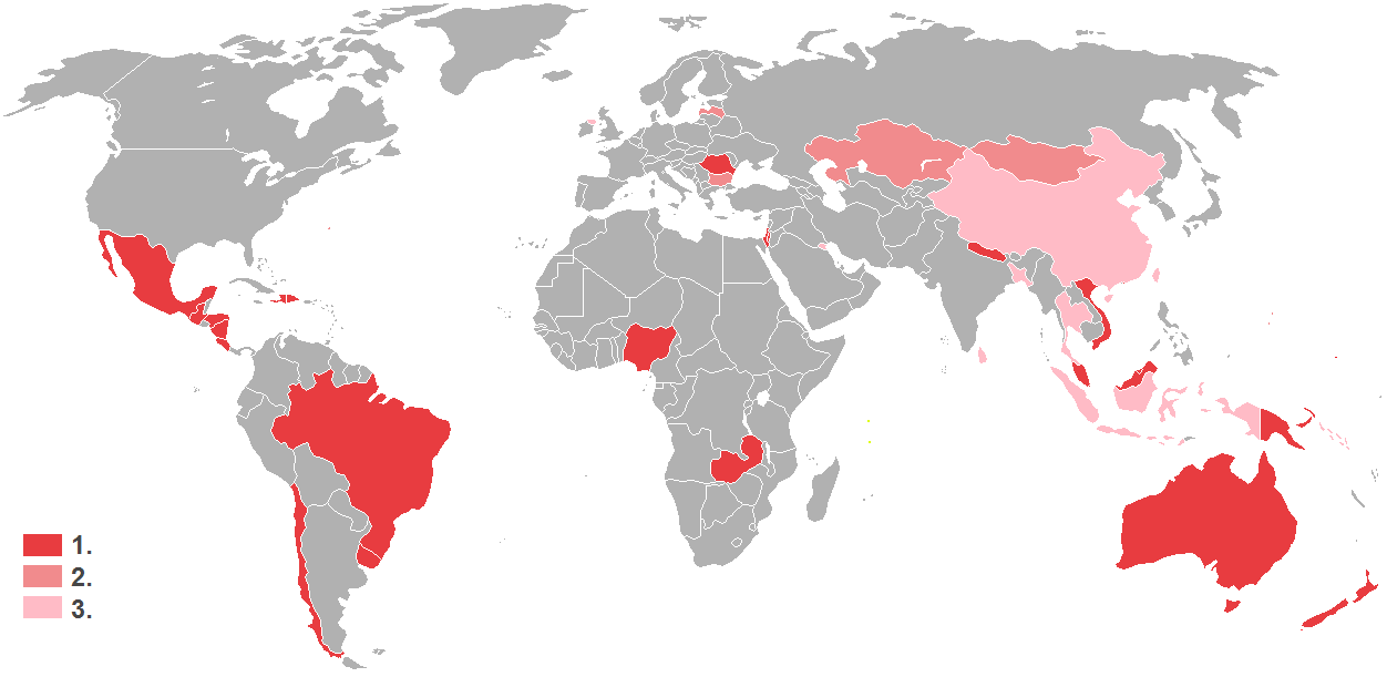 Polymer banknotes